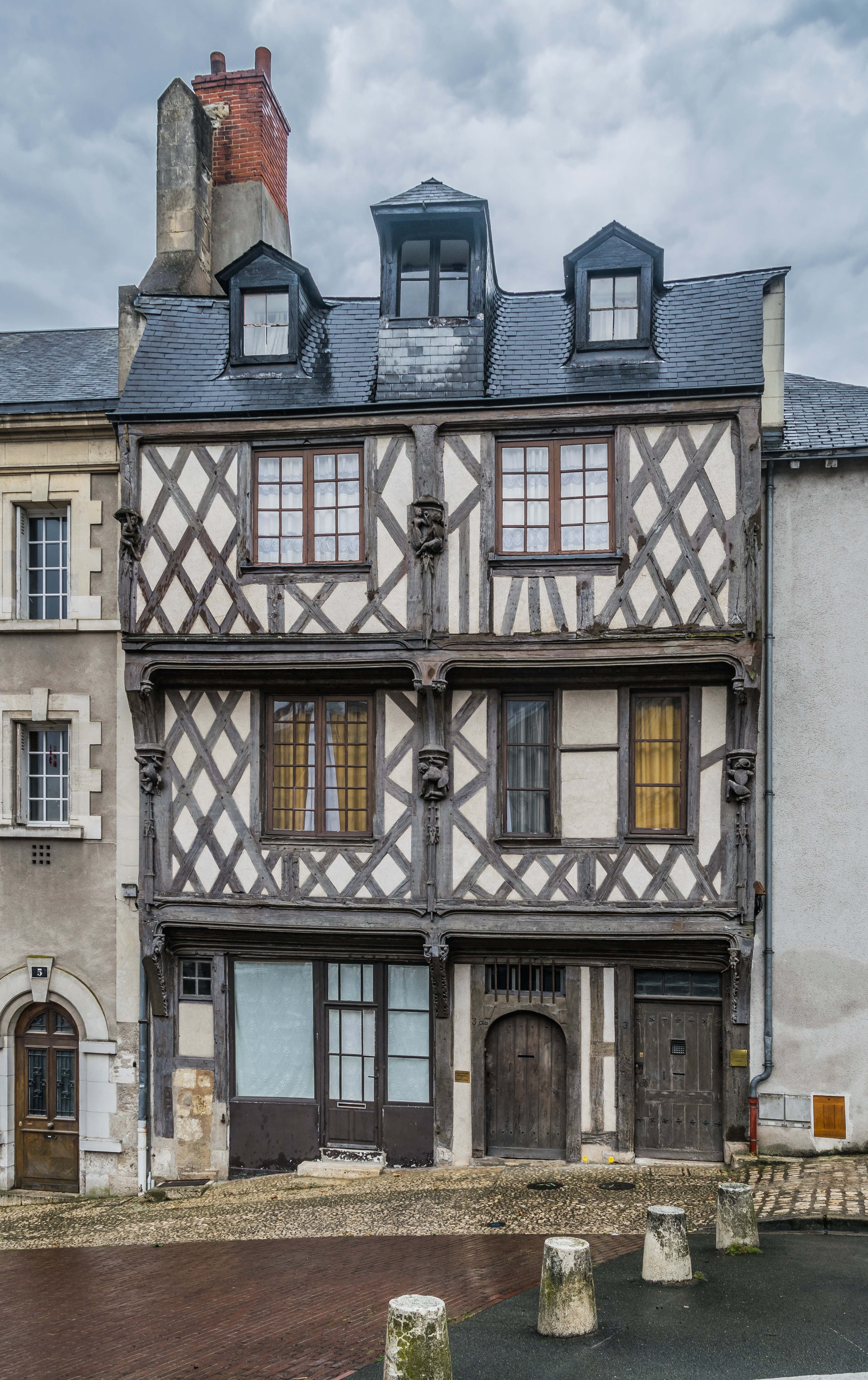 Maison de l'acrobate in Blois, Loir-et-Cher, France .